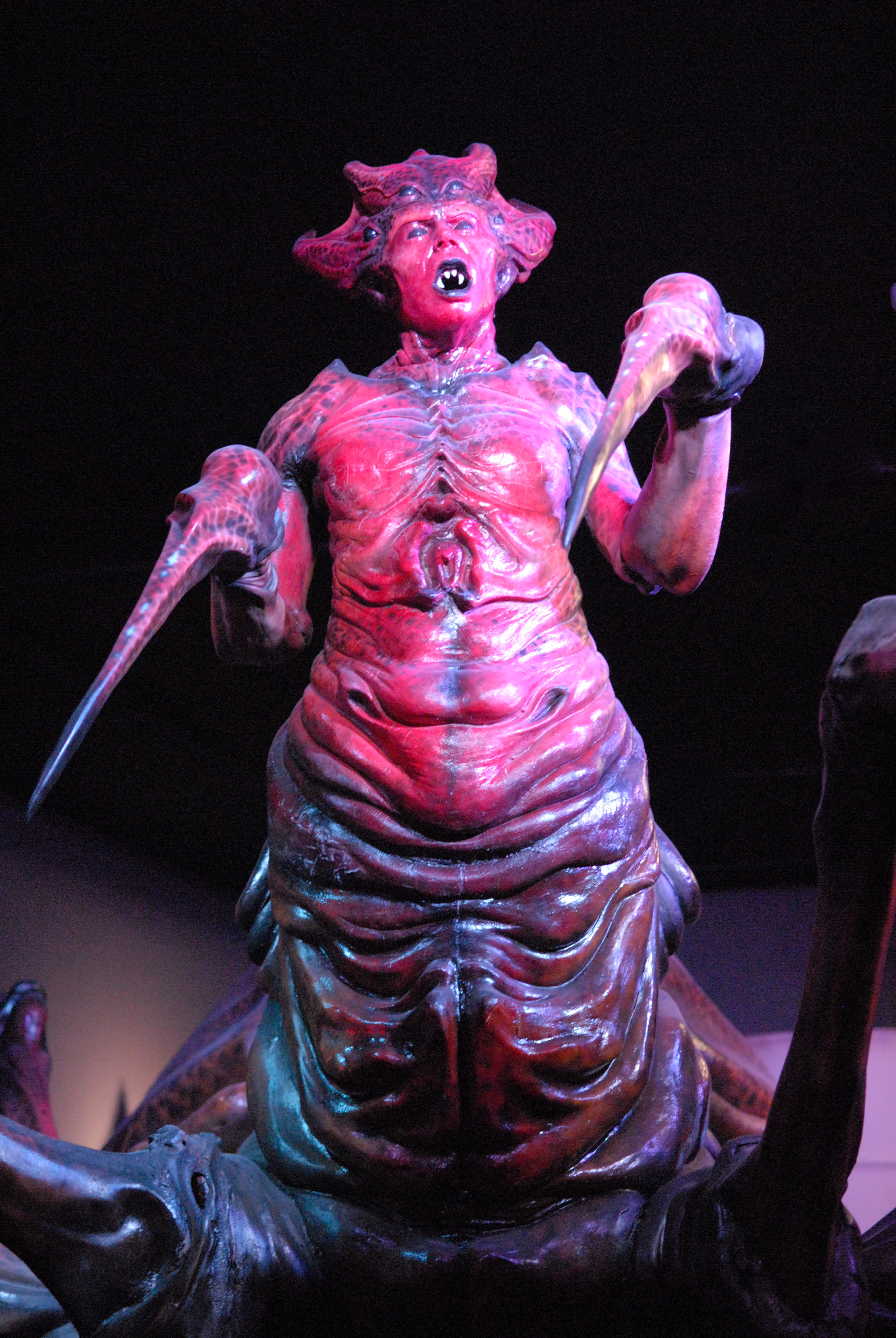 DSC_0054_2 Doctor Who Experience